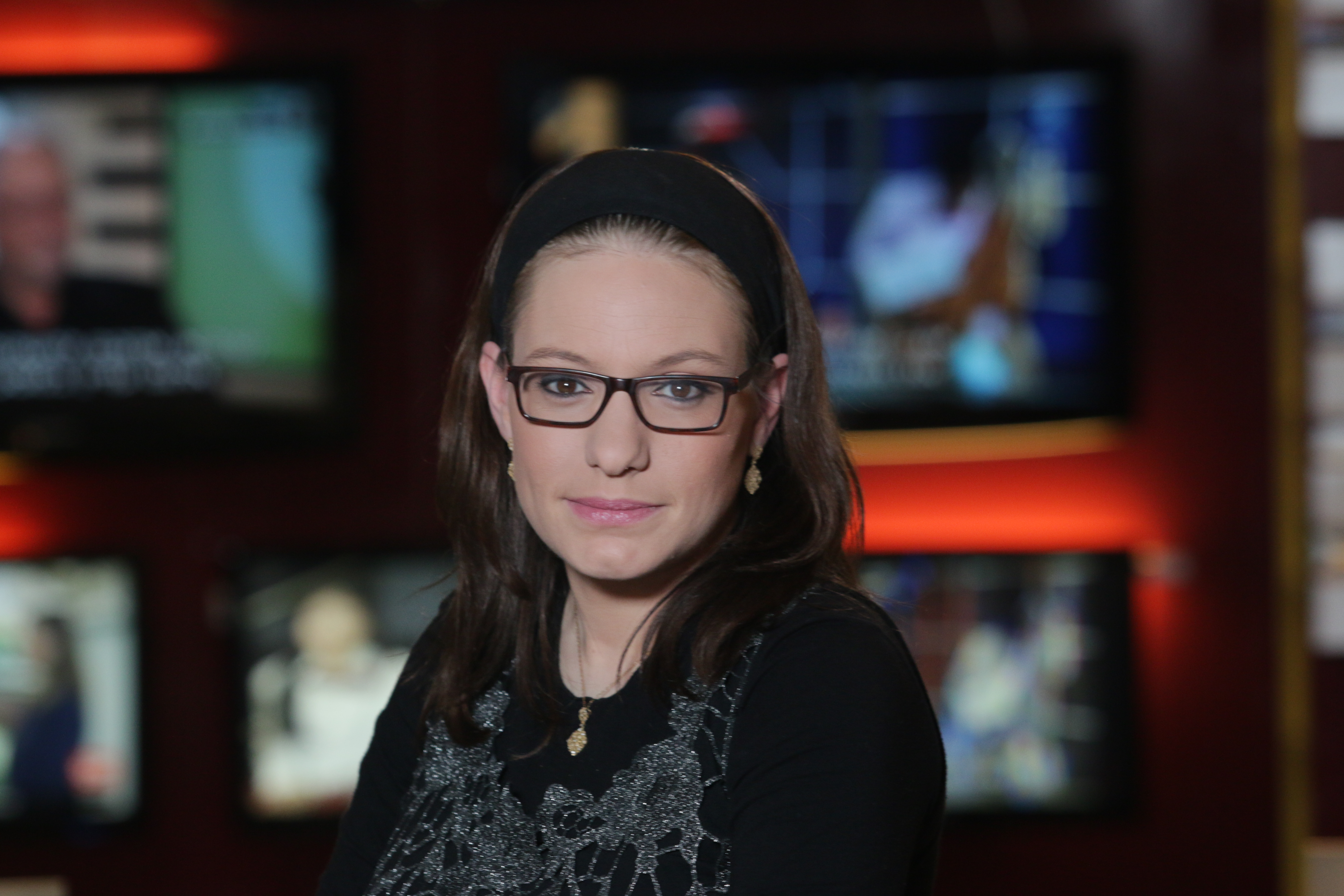 Sivan Rahav meir